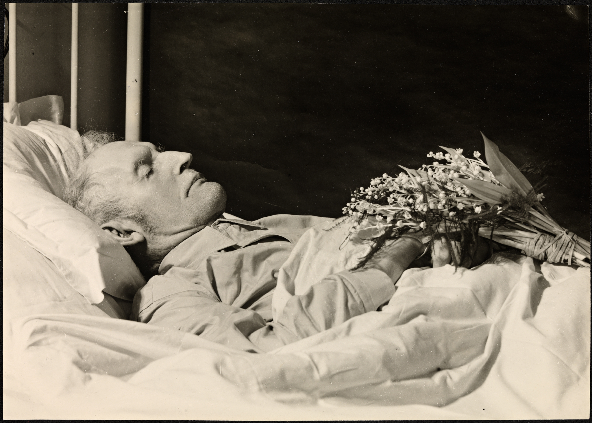 Tittel / Title: Edvard Munch (1863-1944) på lit de parade Dato / Date: januar 1944 Fotograf / Photographer: ukjent / unknown Sted / Place: Oslo, Skøyen, Ekely Eier / Owner Institution: Nasjonalbiblioteket / National Library of Norway Lenke / Link: Bildesignatur / Image Number: blds_05736